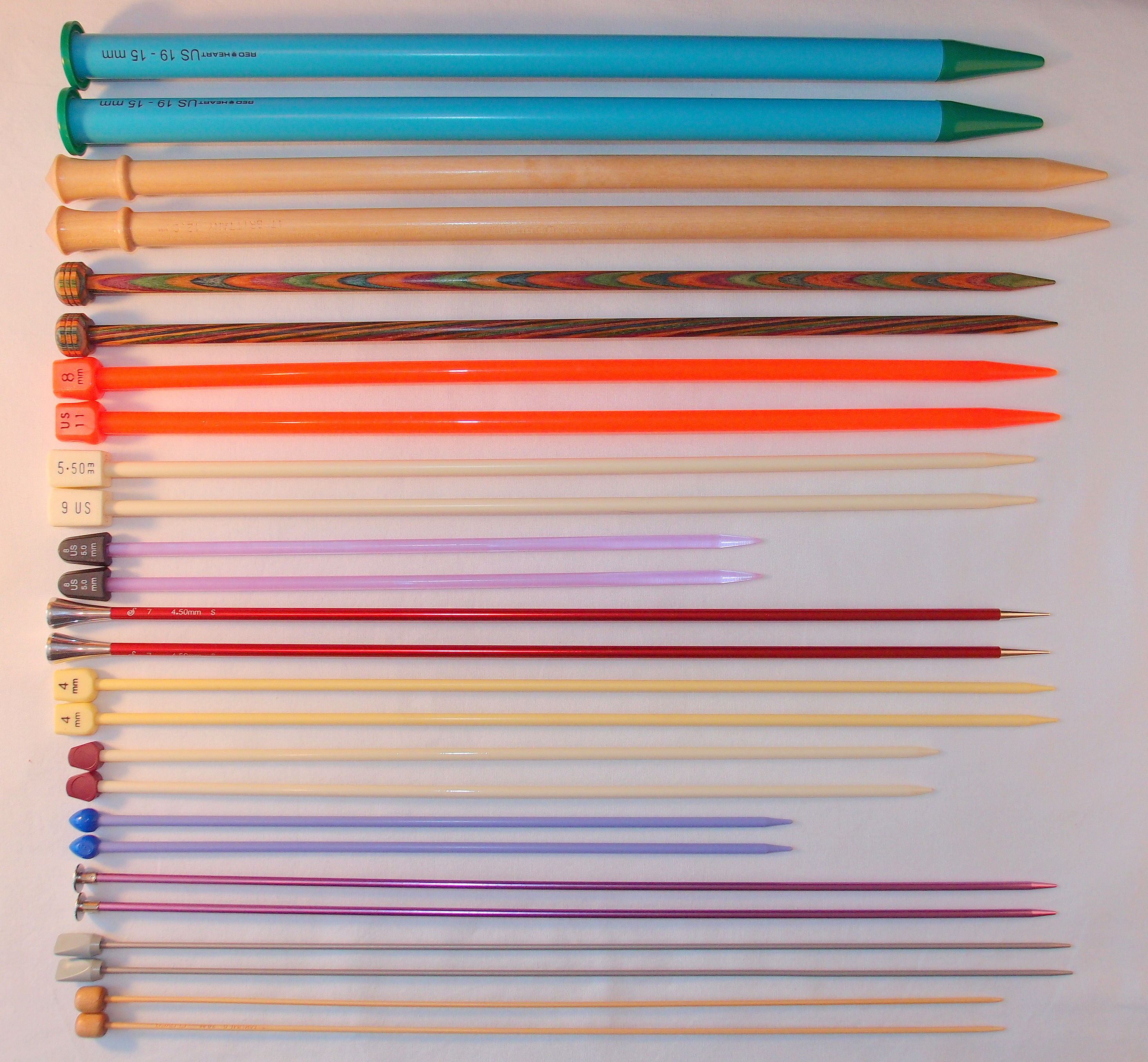 A selection of straight knitting needles in various sizes and materials. From top to bottom, US size 19 - Plastic, Size 15 - Birch wood, Size 10.75 - Laminated wood, Size 11 - Brass reinforced plastic, Size 9 - Flexible plastic, Size 8 - Acrylic, Size 7 - Anodized aluminum, Size 6 - Flexible plastic, Size 6 - Casein, Size 6 - Flexible plastic, Size 3 - Anodized aluminum, Size 2 - Coated aluminum, Size 0 - Bamboo